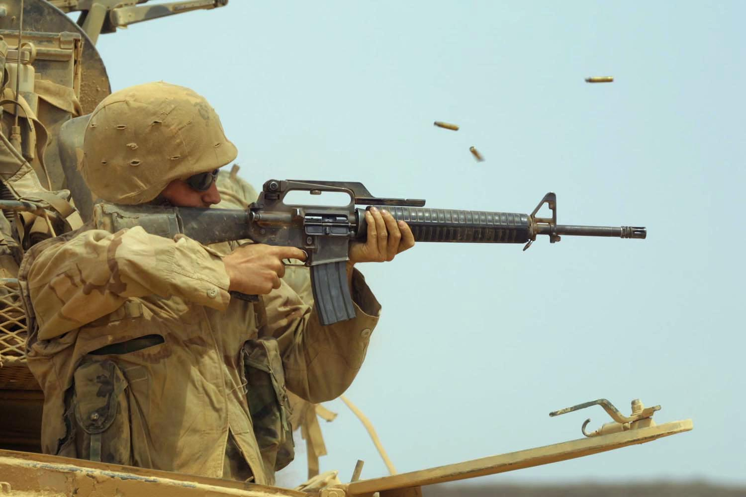 U.S. Marines from 26th Marine Expeditionary Unit (Special Operations Capable) in Djibouti as part of Combined Joint Task Force - Horn of Africa. Photograph taken July 15, 2003.